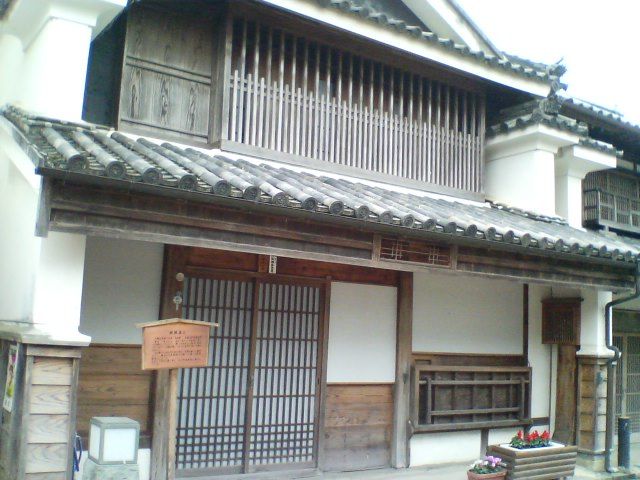 Home where Gohei Ono (小野五平) was born, 12th Meijin (Gramd Champion) of shogi; at Wakimachi, Mima city, Tokushima pref., Japan